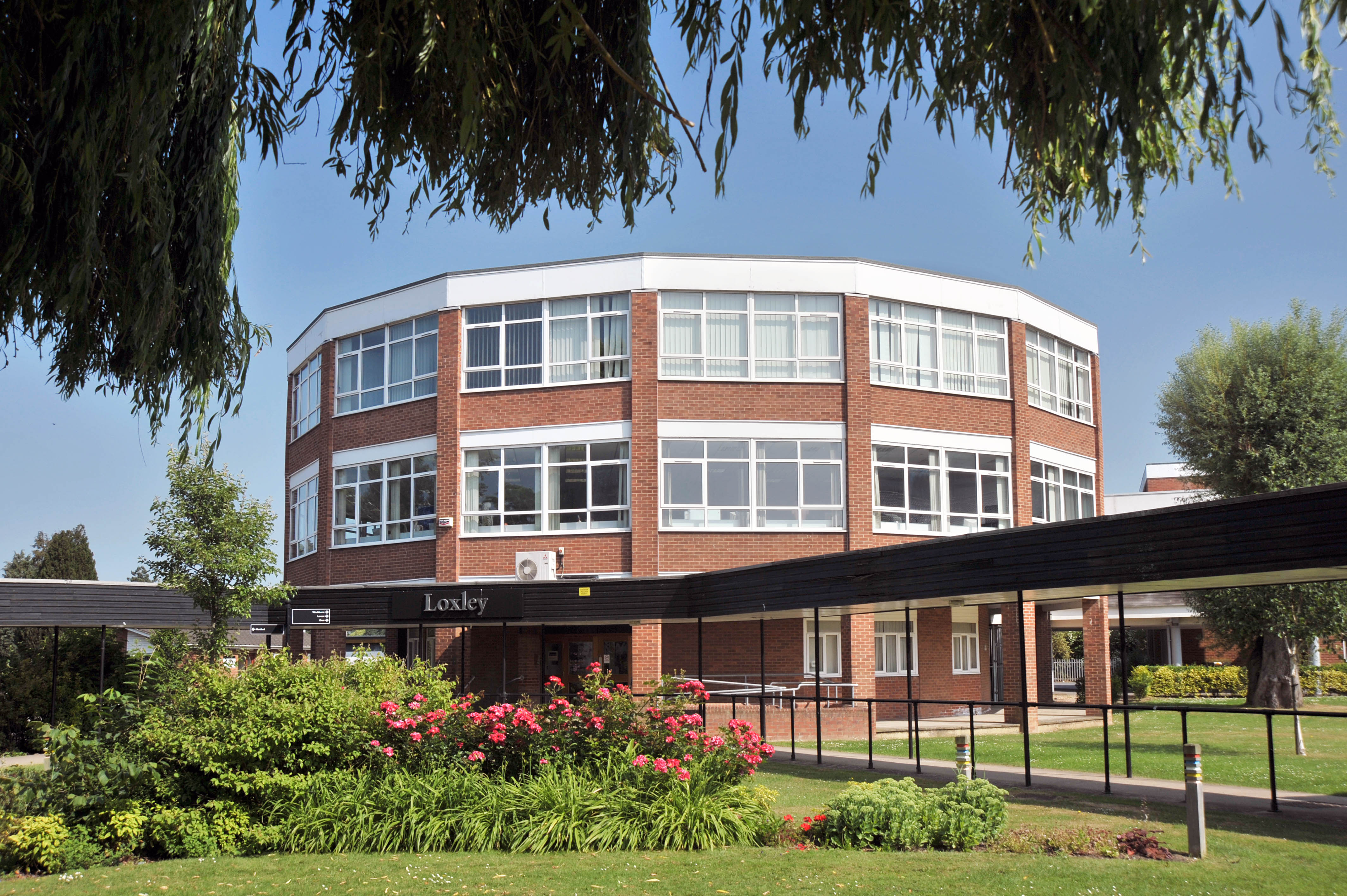 Loxley Building of the Hull York Medical School, located at the University of Hull.